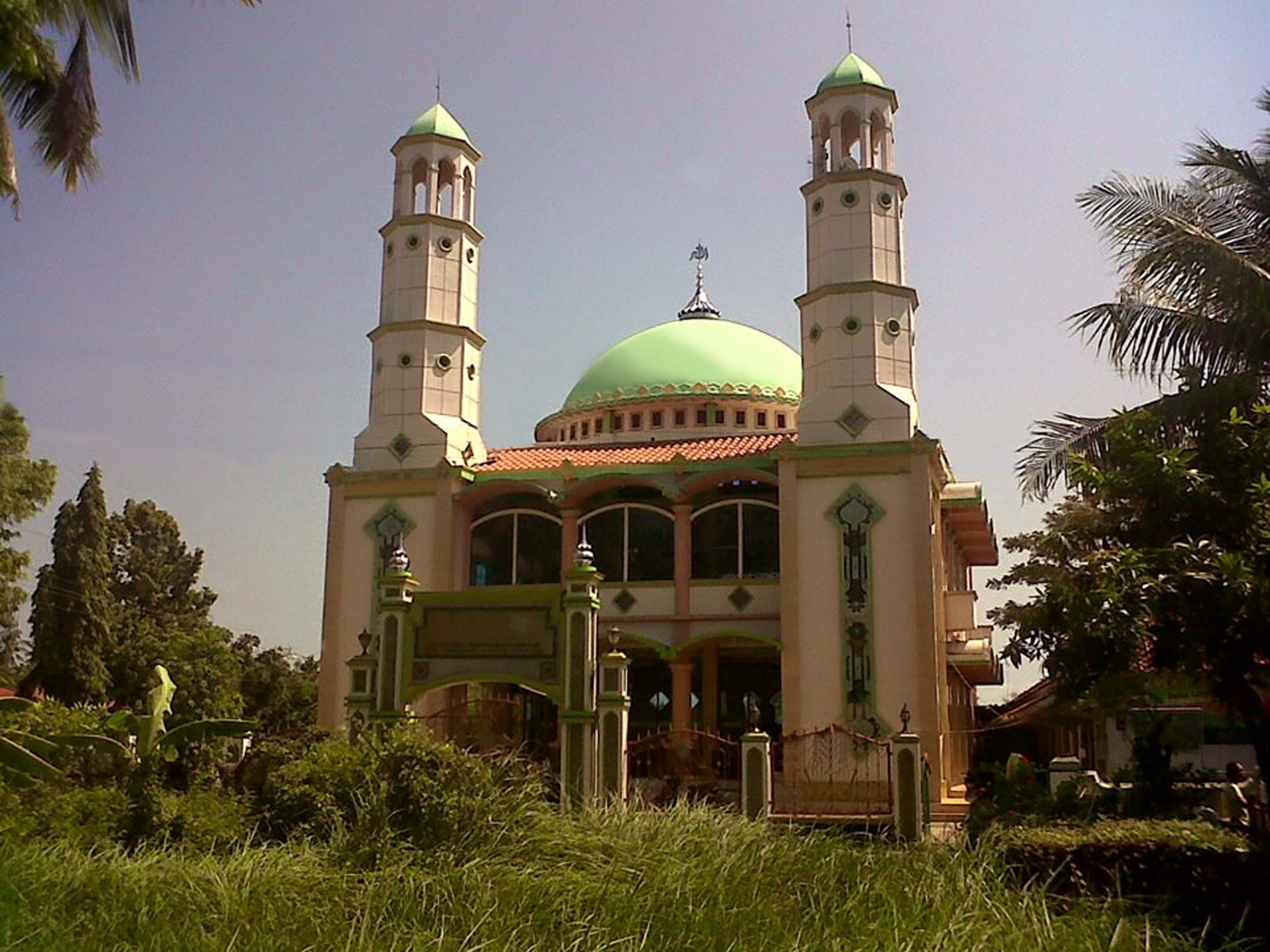 Baiturrohman Mosque in Limbangan, Pemalang, Indonesia.